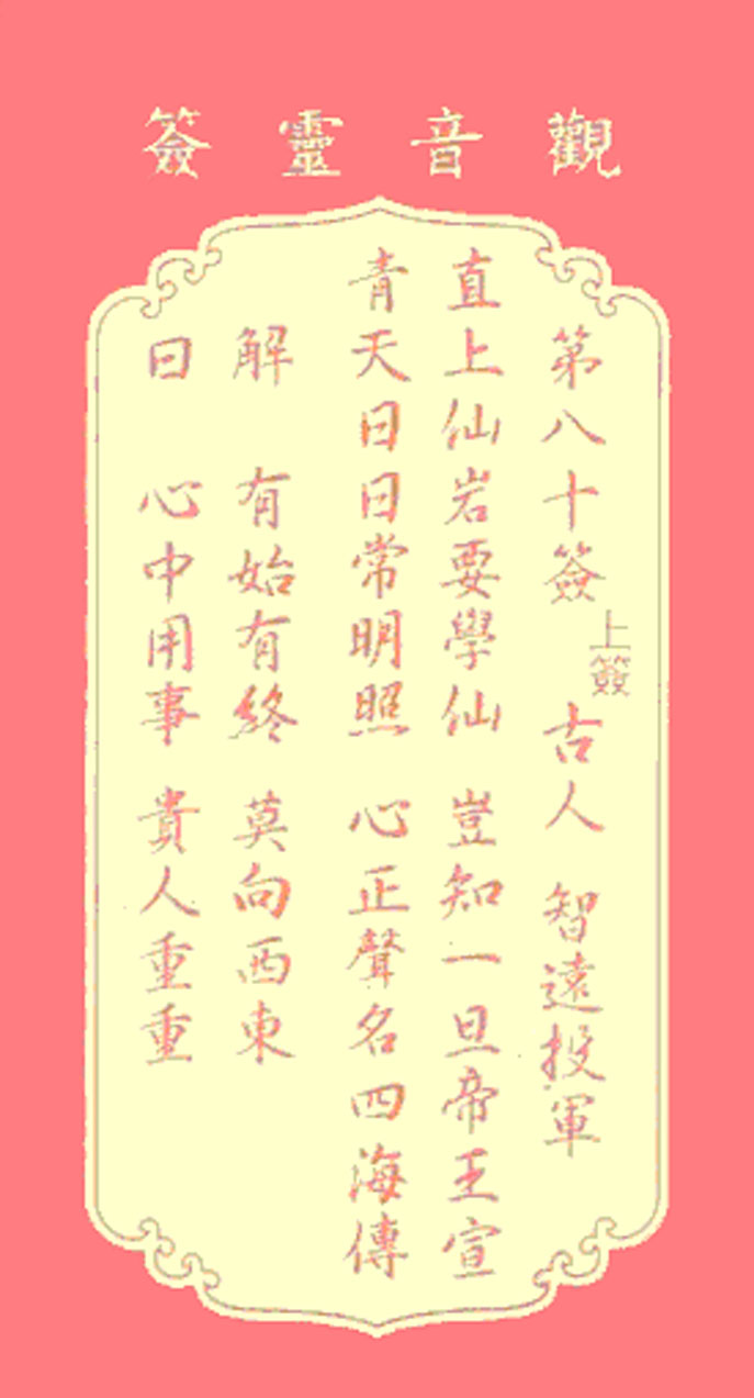 A divination slip given in a temple when a visitor performs a qiantong divination.